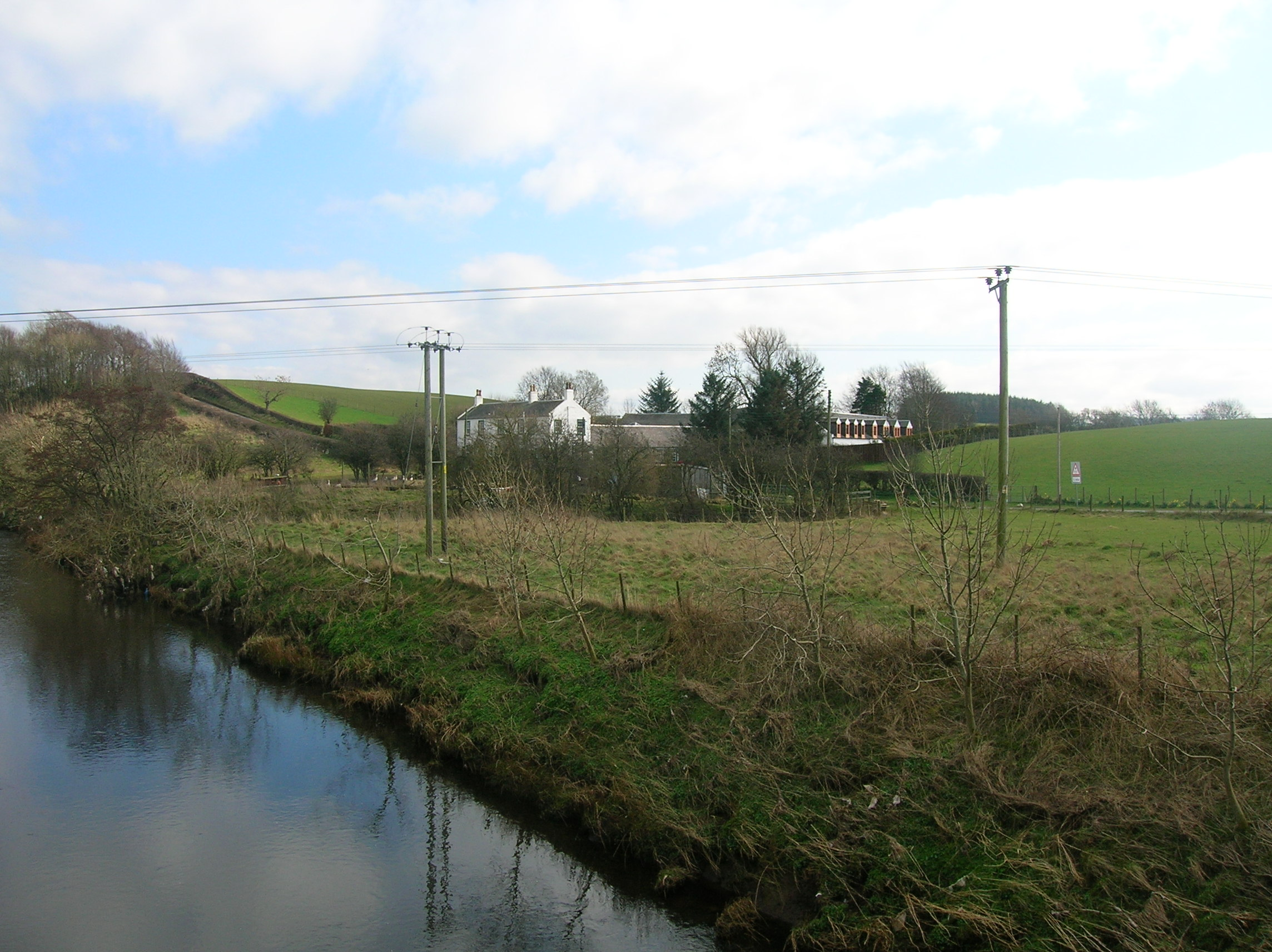 A view of Old Rome from the bridge over the Irvine at Gatehead, East Ayrshire, Scotland. 2007.